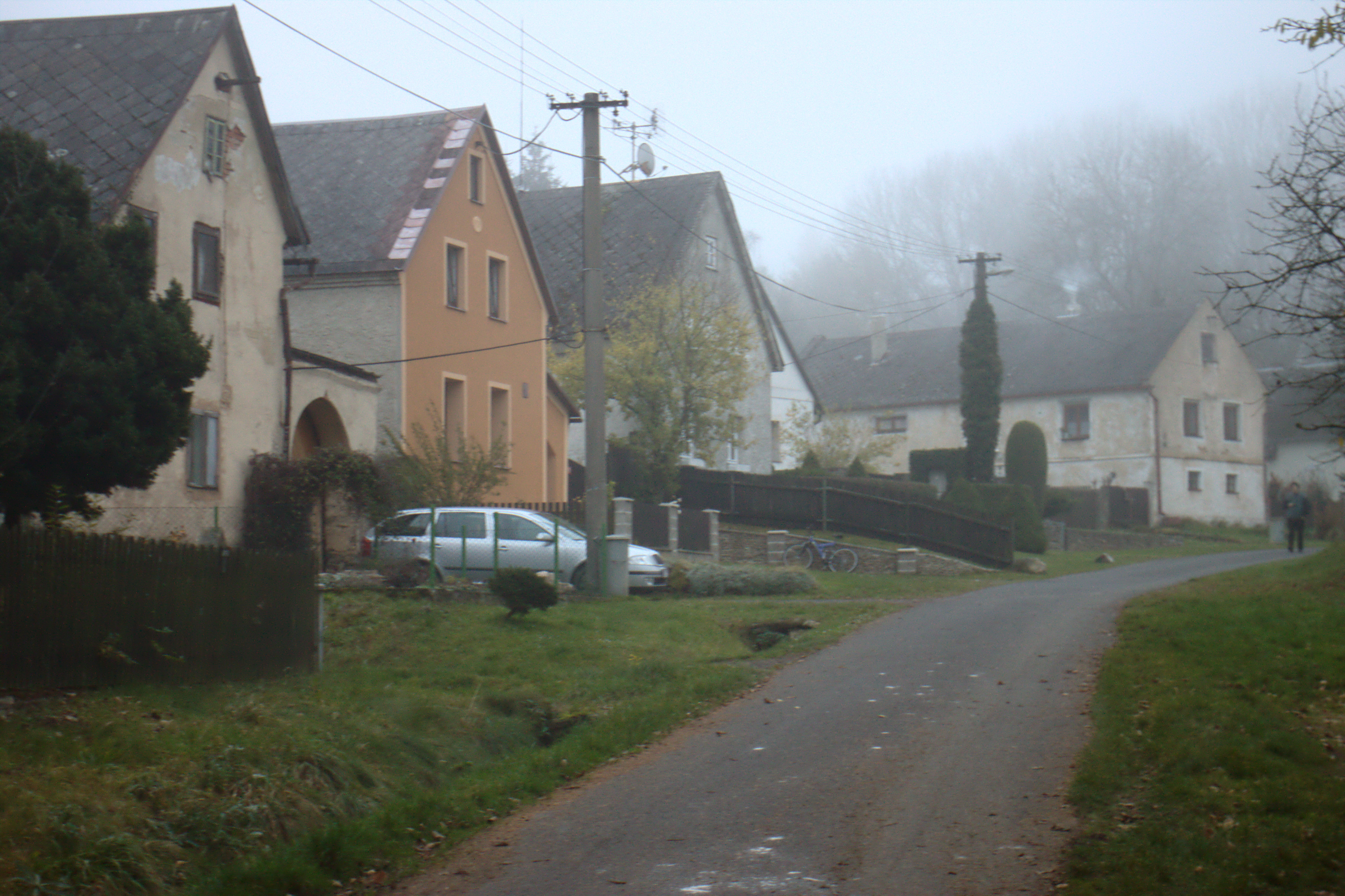 Kojšovice village, central part. Karlovy Vary Region, CZ